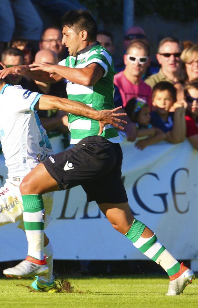 Alan Ruiz